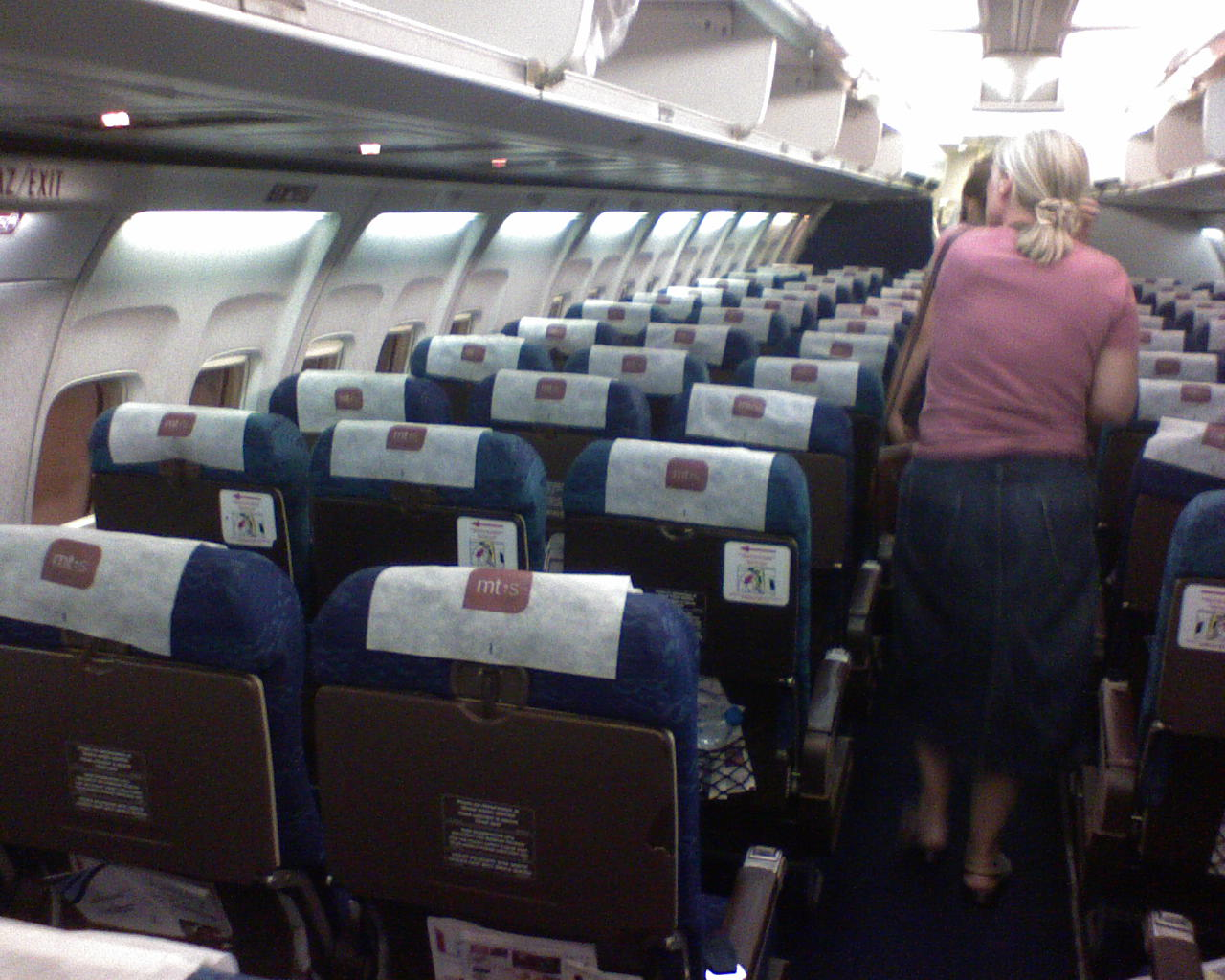 Interior of Jat Boeing 737-300